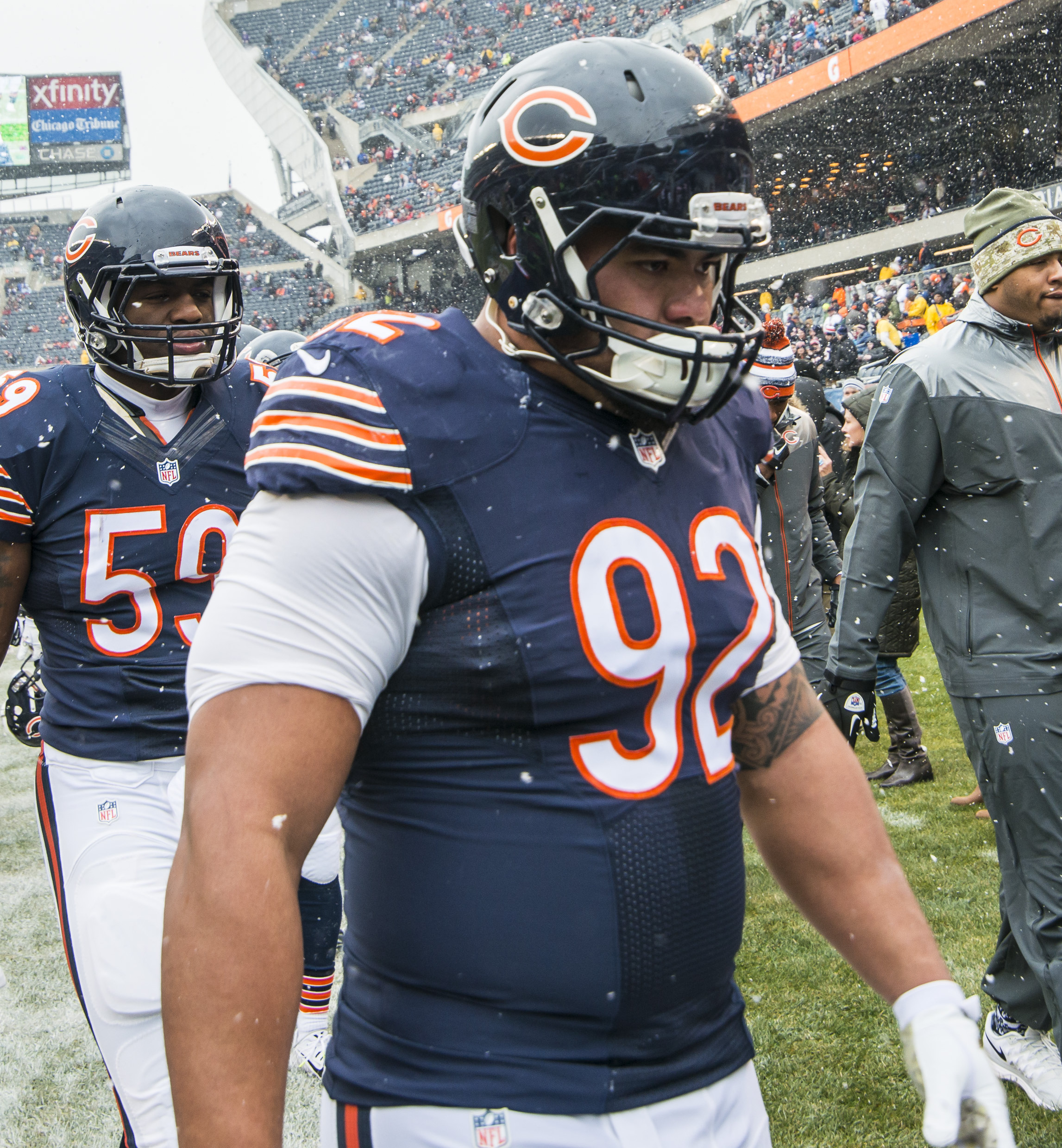 Chicago Bears defensive tackle, Stephen Paea, in a game against the Minnesota Vikings on November 16, 2014.